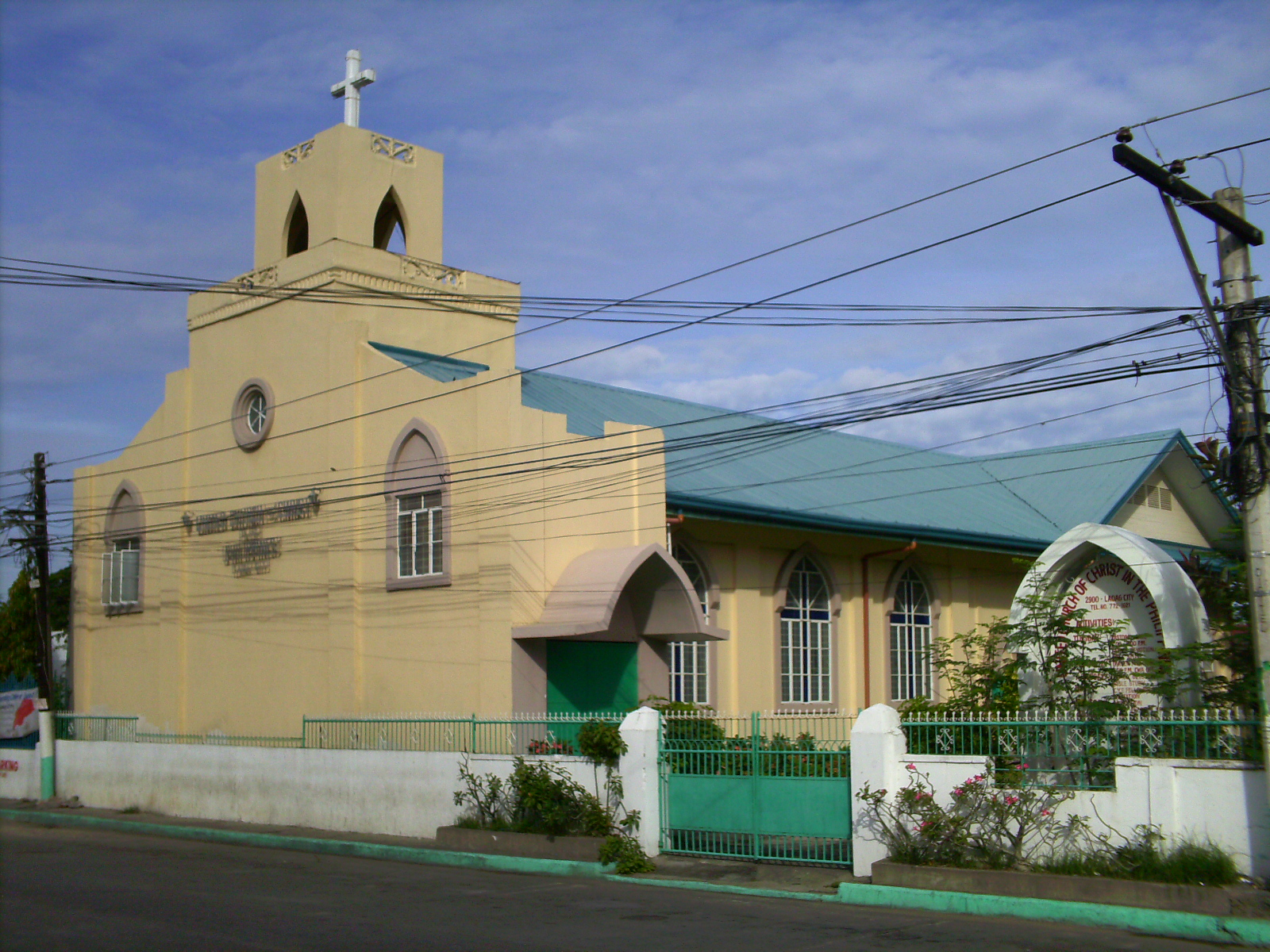 The United Churhces of Christ in the Philippines in Laoag City.